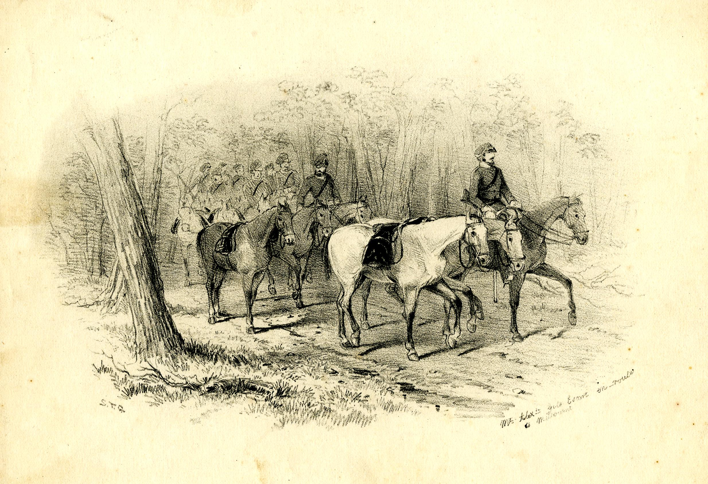 Procession of mounted policemen and horses on a forest road from left to right. Lithograph